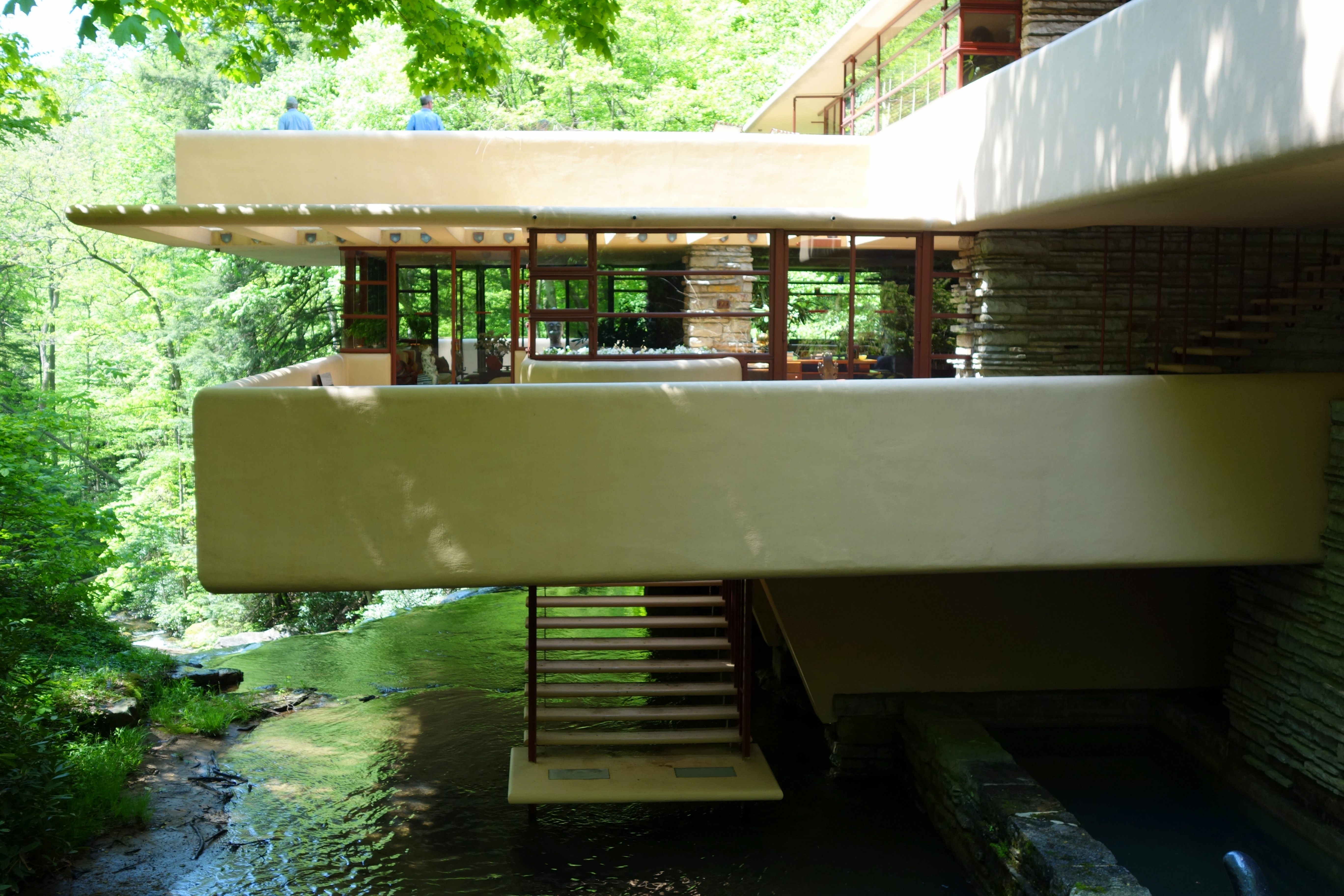 Fallingwater (Kaufmann Residence) by Frank Lloyd Wright. Photography of the exterior was permitted without restriction.